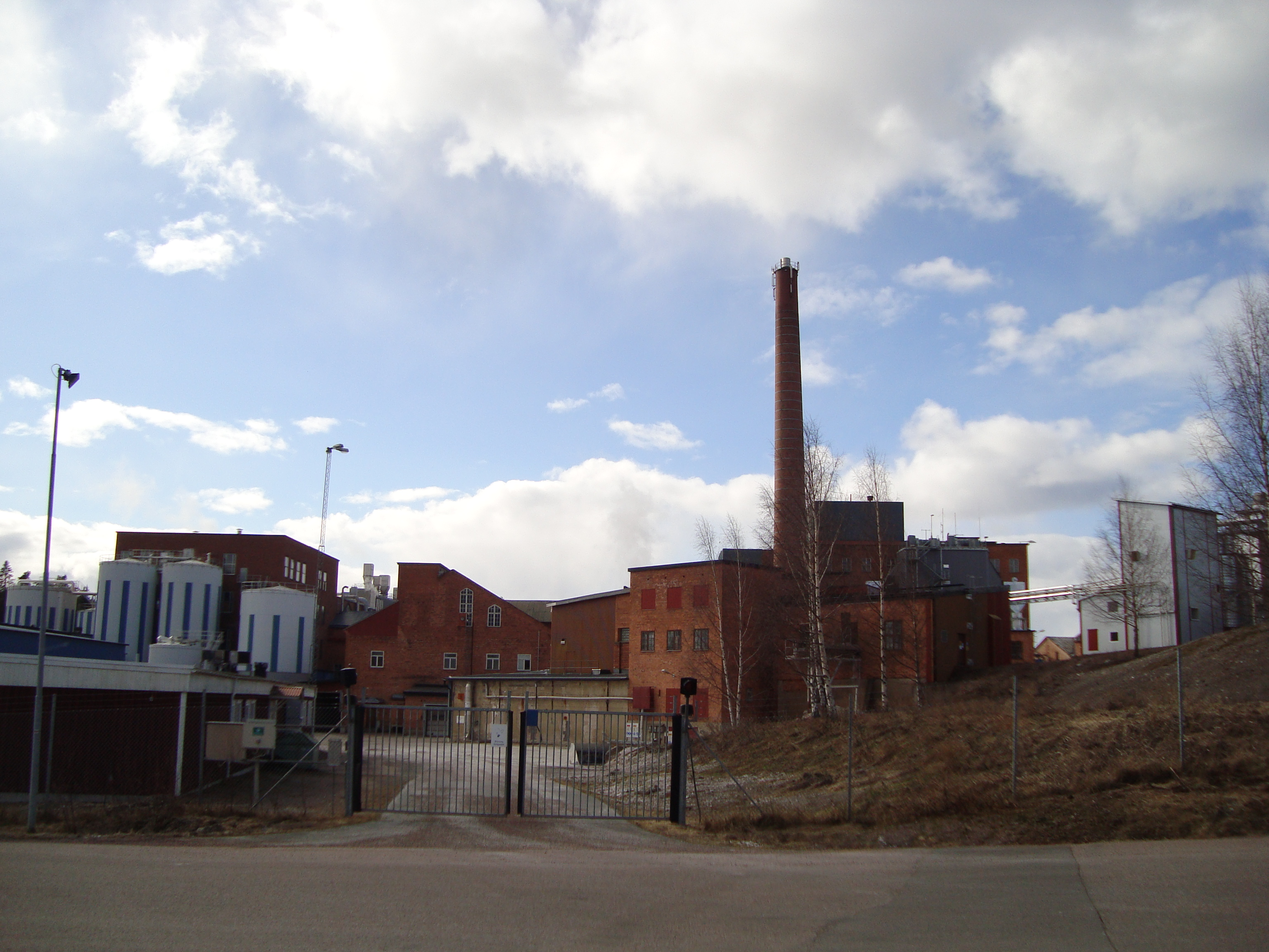 Grycksbo paper mill, Falun Municipality, Sweden